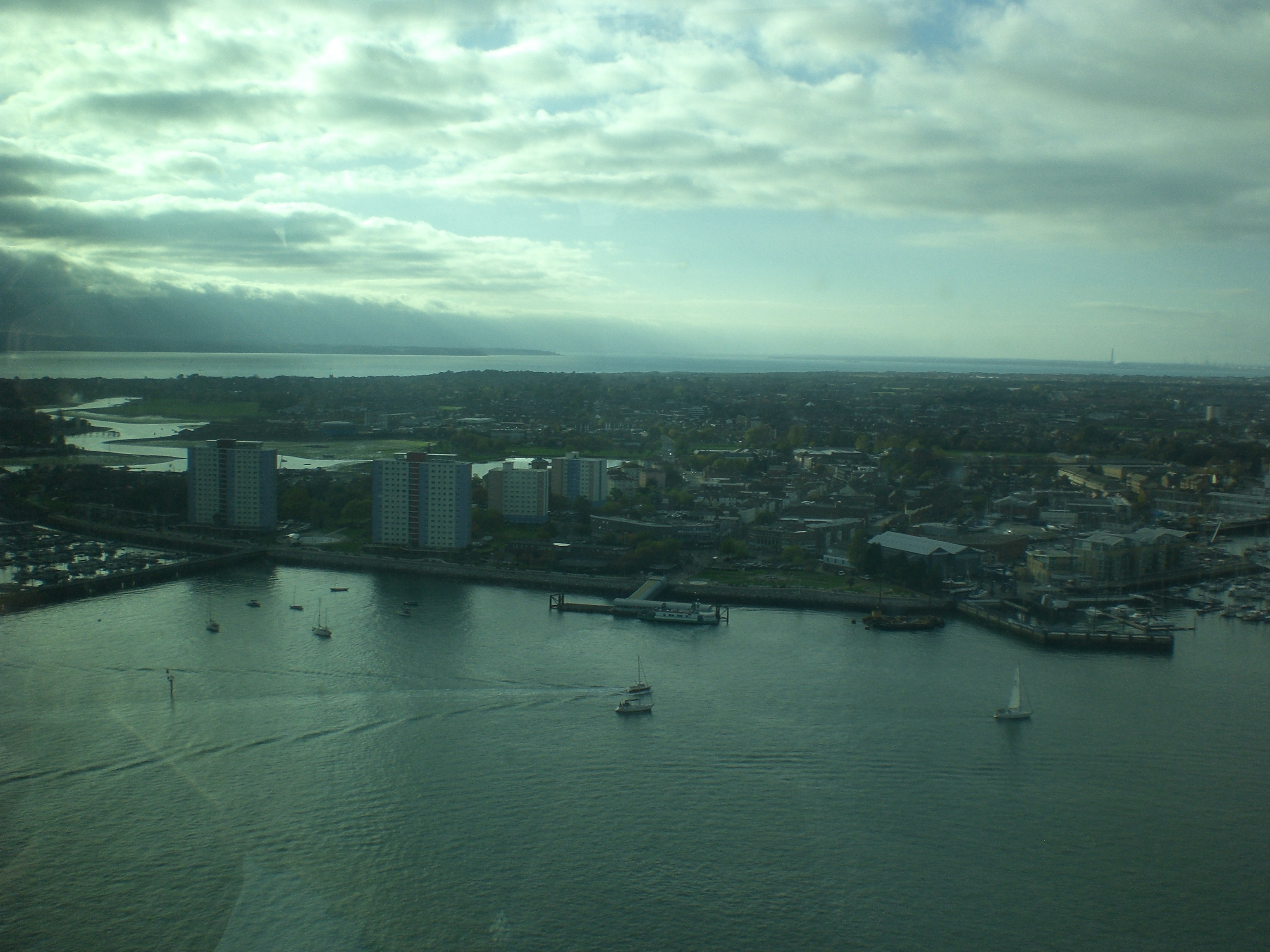 The view out towards Gosport from the Spinnaker Tower in Portsmouth.